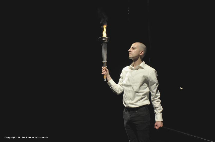 Living installation Non Aligned 4x4 Les Halles Brussels, Belgium